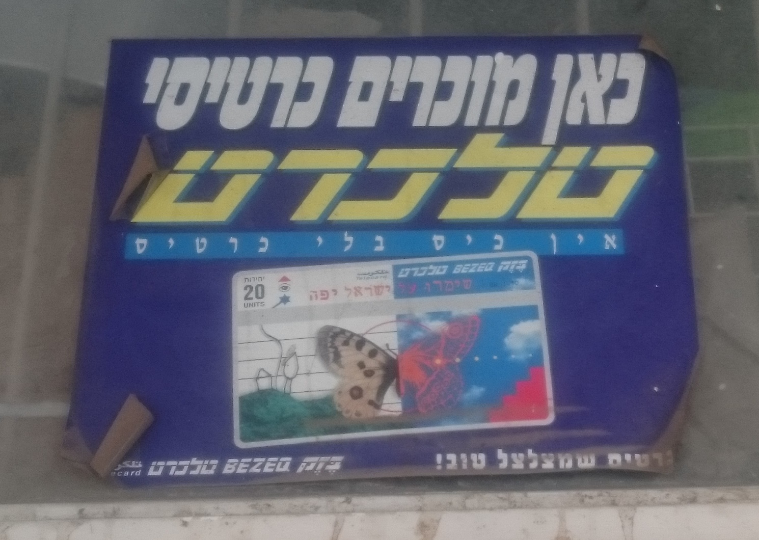 Old 90s-era Bezeq "Telecard Sold Here" sticker on a store window in Hod Hasharon, Israel.